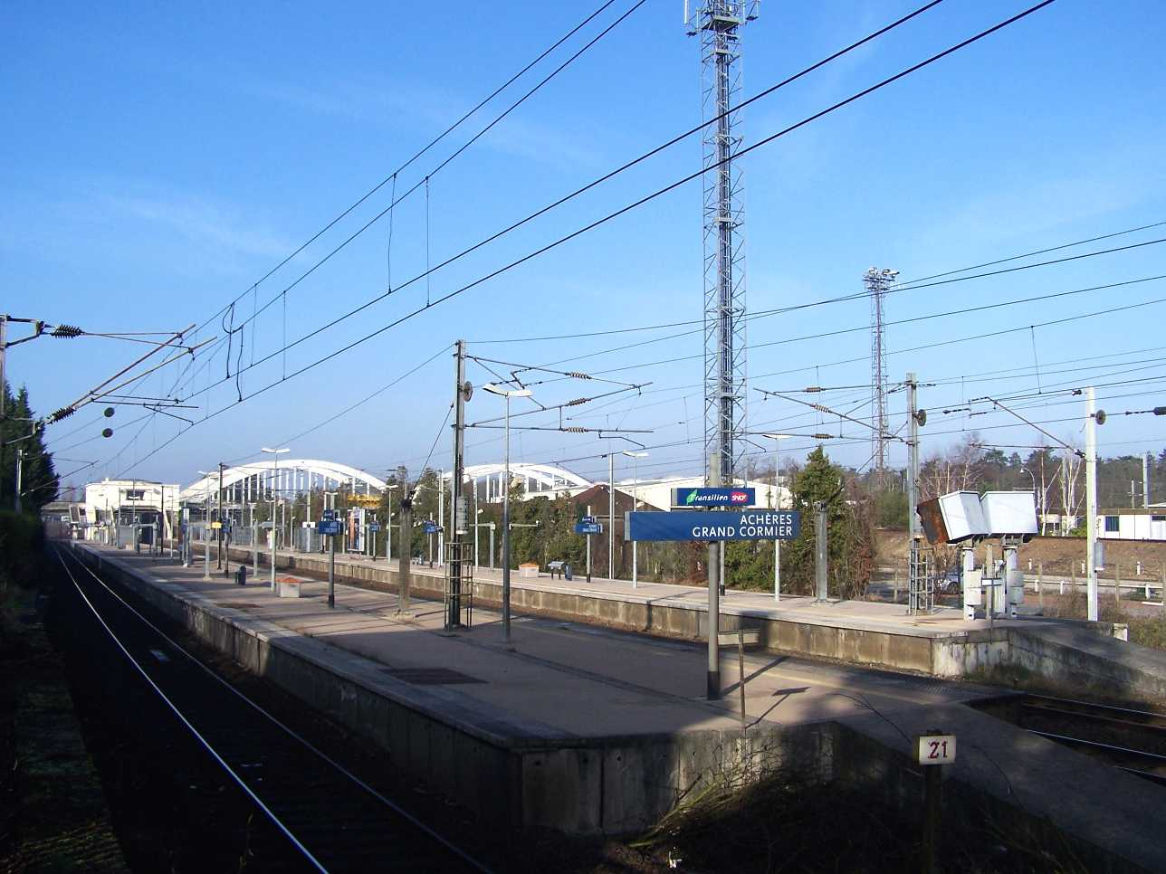 Railway station of Achères - Grand-Cormier in Saint-Germain-en-Laye, Yvelines, France